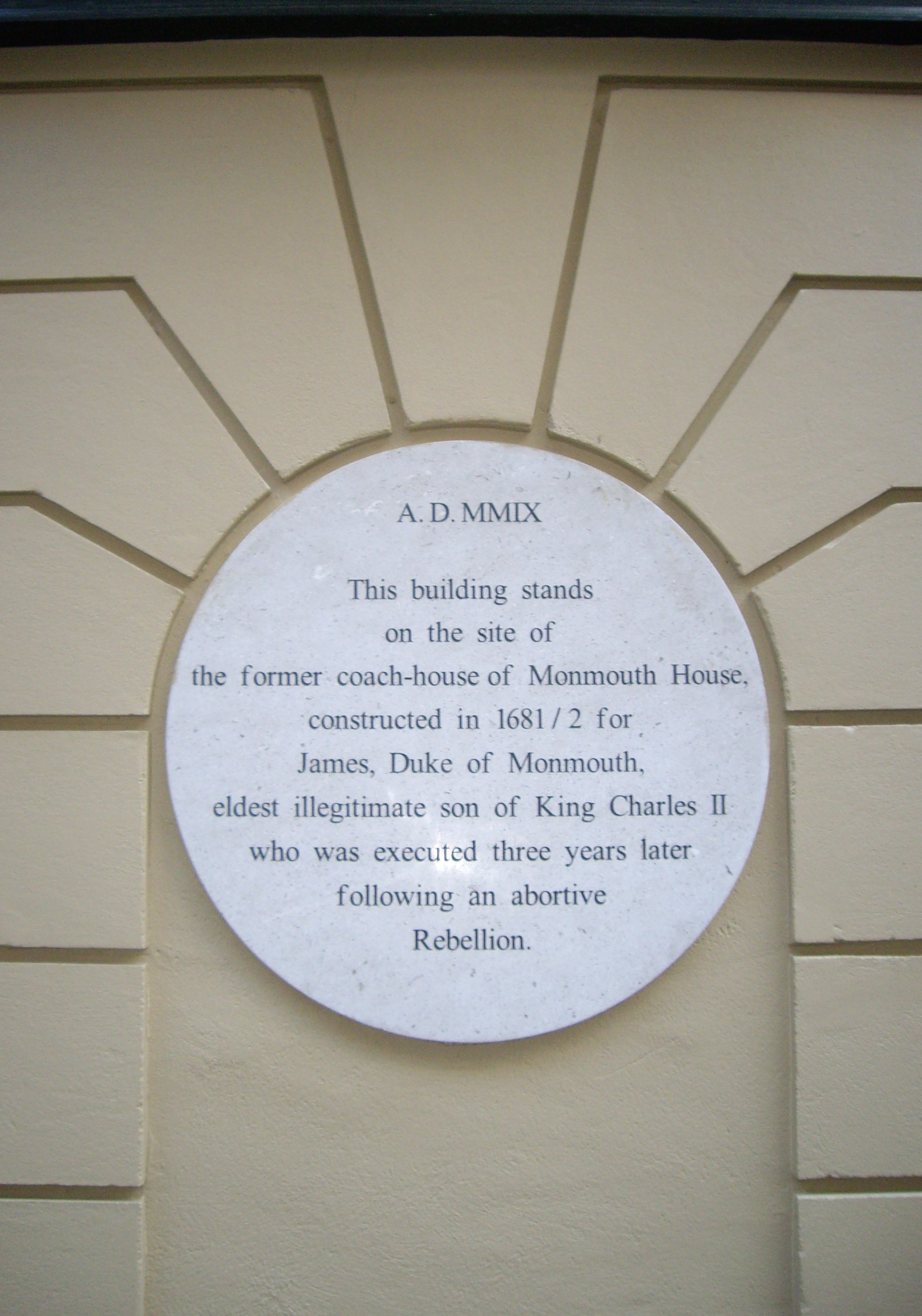 Plaque on 9-11 Bateman's Buildings